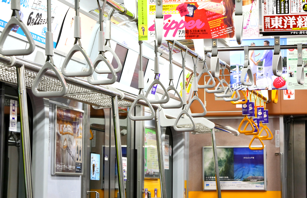 Straps of Tokyu 5050 series EMU